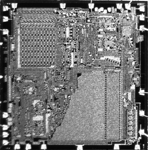 Photograph of the calculator processor integrated circuit developed by Pico Electronics and introduced in 1971. The chip was manufactured and marketed by General Instrument of Hicksville NY.